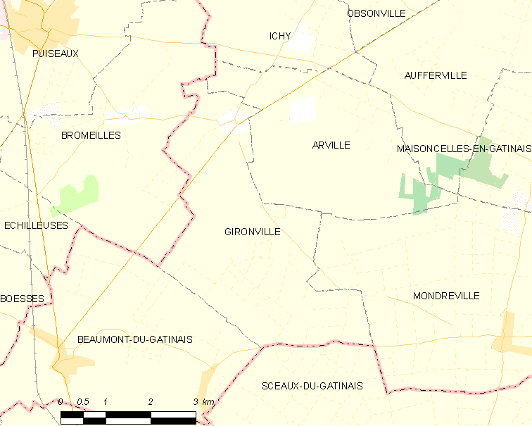 Map of French municipality Gironville